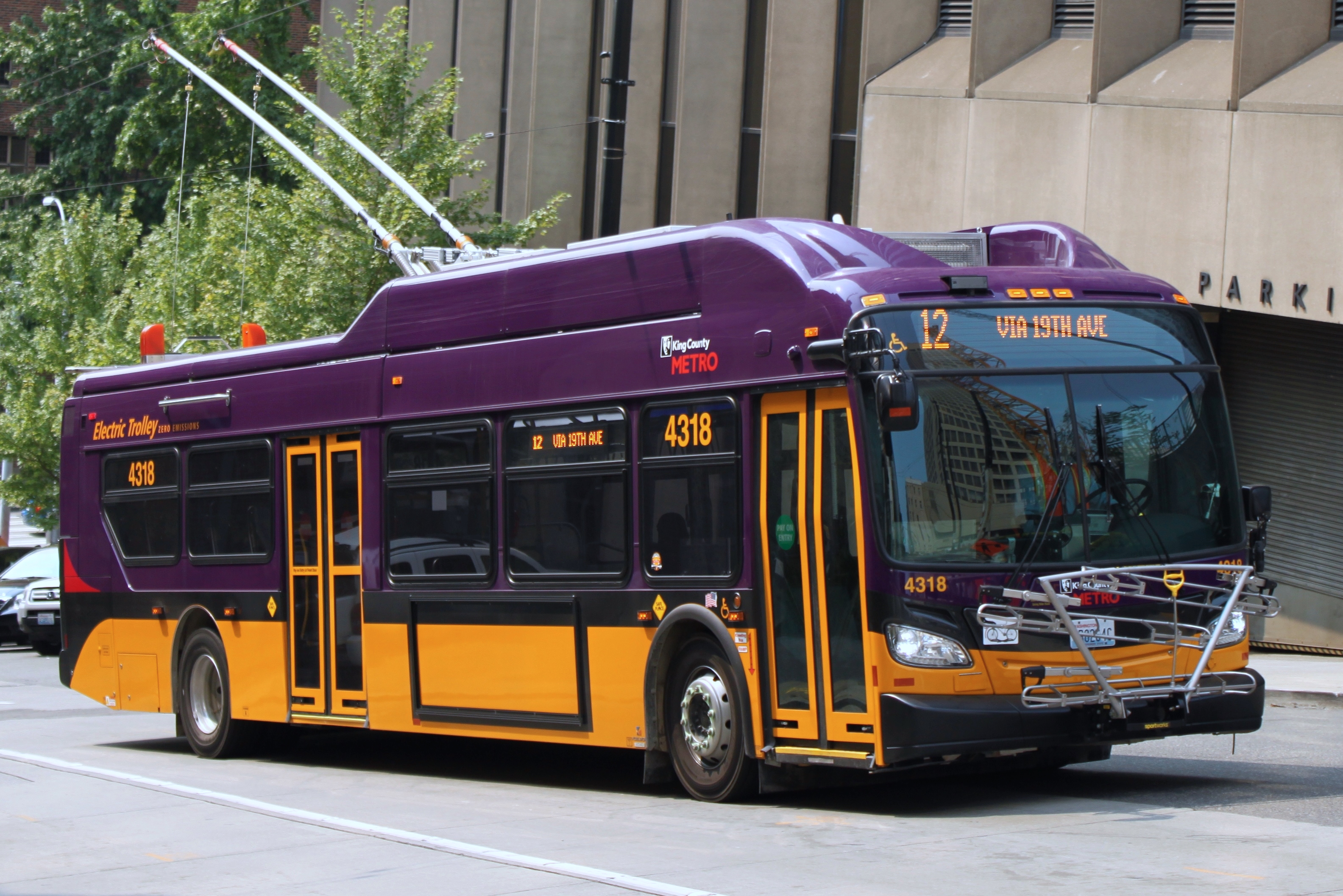 2015 New Flyer XT40 on King County Metro route 12, in downtown Seattle. It is one of the first of the new trolleybus fleet, which began to enter service on August 19, 2015. The specific location is on Marion Street between 4th Avenue and 5th Avenue, a section with a 15% grade.